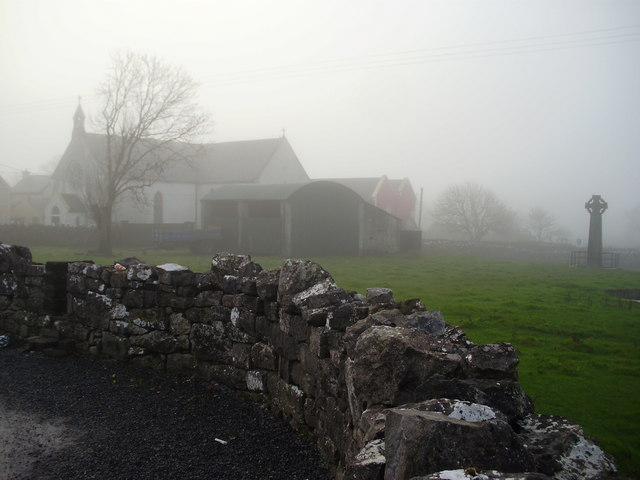 Kilfenora in the mist The new(er) church of St Fachta is on the left and just on the right is one of the 7 Kilfenora High Crosses. this one stands alone in a field west of the old cathedral, and is 5m tall.